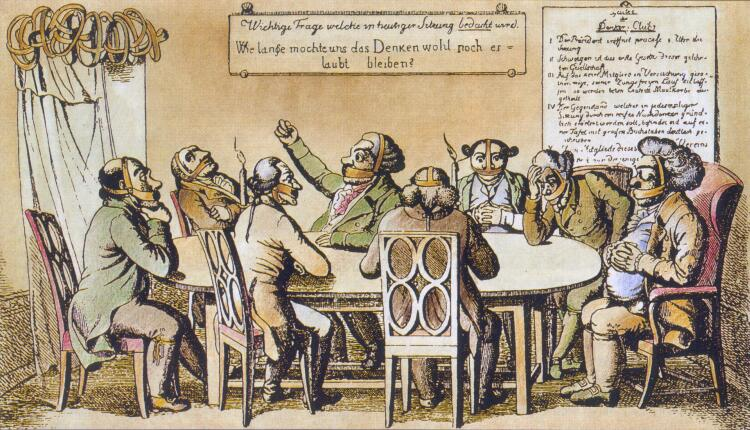 The Thinkers Club cartoon, 1819